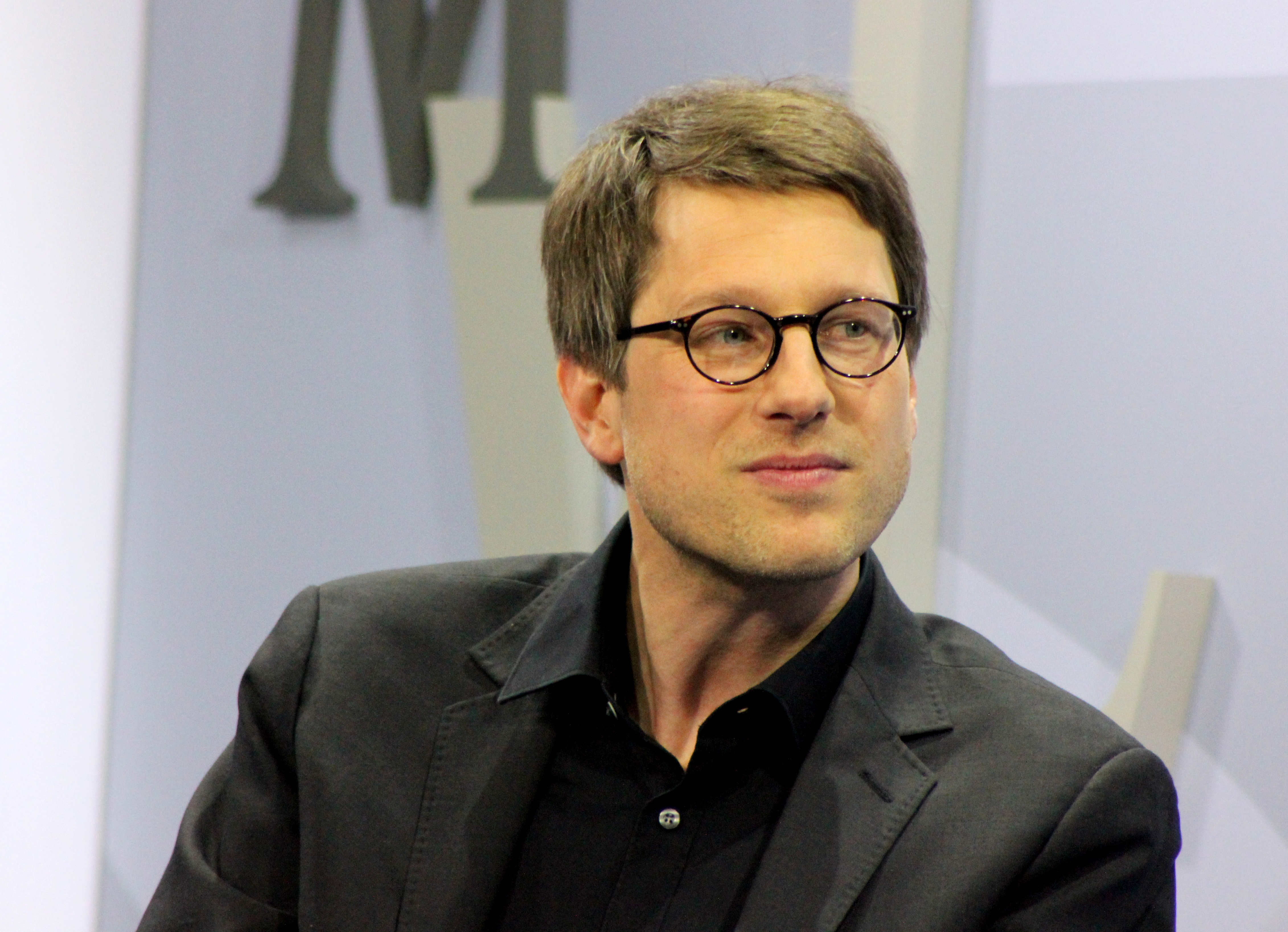 Jan Wagner, Leipzig Book Fair 2015